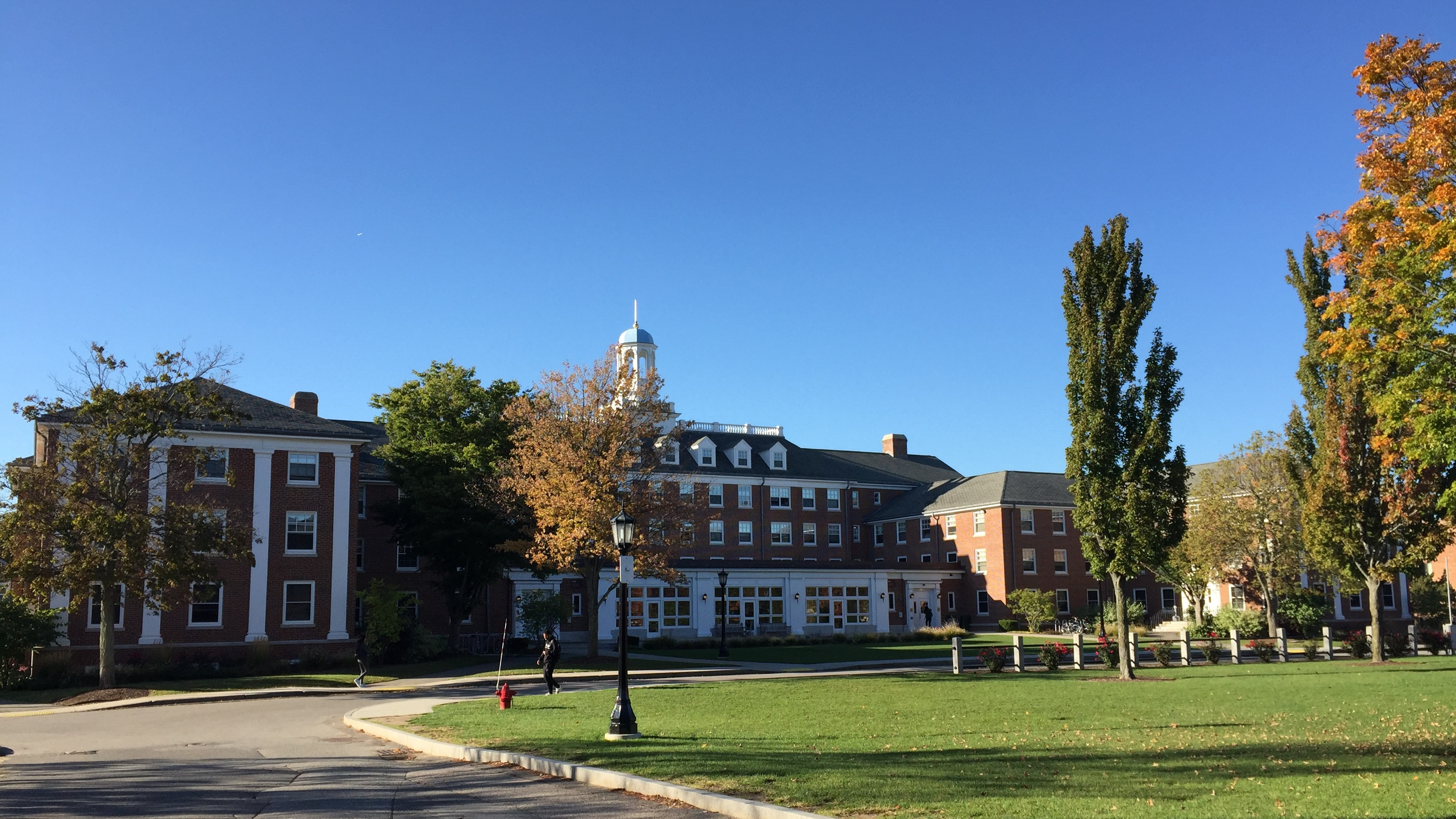 Carmichael Hall in Residence Quad